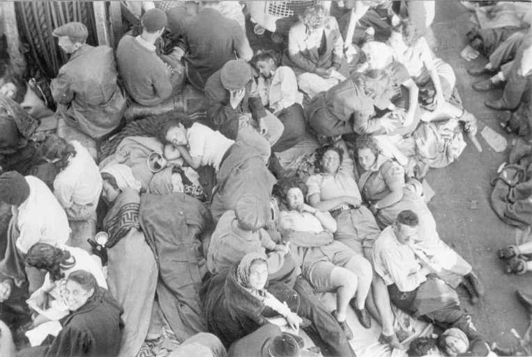 Immigration to Israel